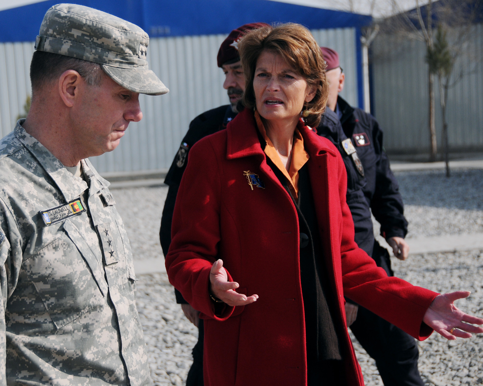 100109-N-9594C-013 – KABUL – Lt. Gen. William B. Caldwell IV, left, Commander NATO Training Mission – Afghanistan, talks with U.S. Senator Lisa Murkowski during a tour of the Central Training Facility (CTC), Kabul, on January 9, 2010. Murkowski was joined by Senators Roger F. Wicker, Mitch McConnell and Mike Crapo and Rep. Michael Castle for a visit to CTC and other facilities in the area. The Congressional delegation received briefings from CTC, NATO Training Mission-Afghanistan (NTM-A), and International Security Assistance Force senior leadership and met with Afghan National Police officers while in the Kabul area. The mission of NTM-A is to train the Afghan National Security Forces and enhance the Government of the Islamic Republic of Afghanistan’s ability to achieve a stable and secure country (U.S. Navy photo by Chief Mass Communication Specialist F. Julian Carroll)